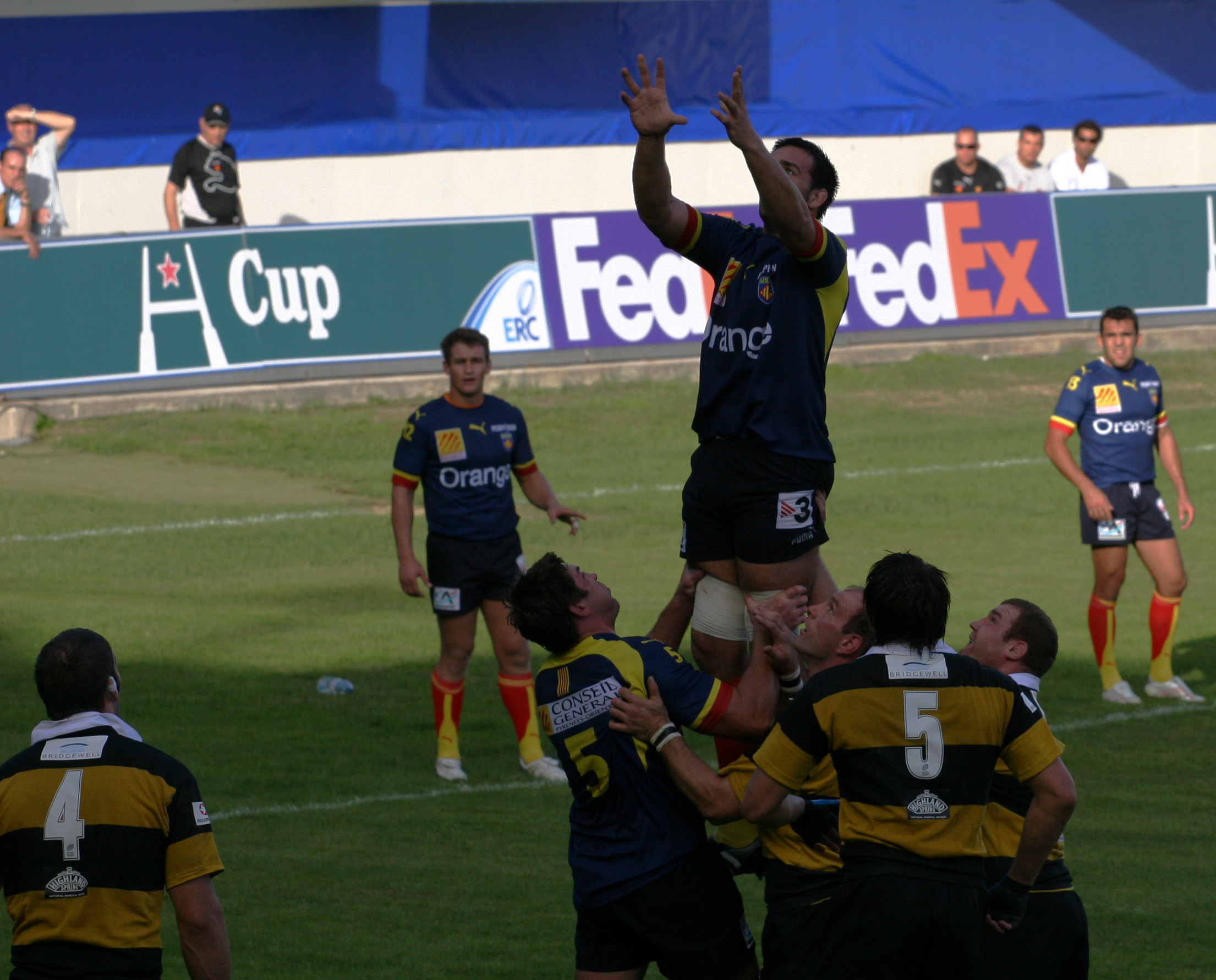 Perpignan Lineout London Wasps/USAP rugby union game in Heineken Cup